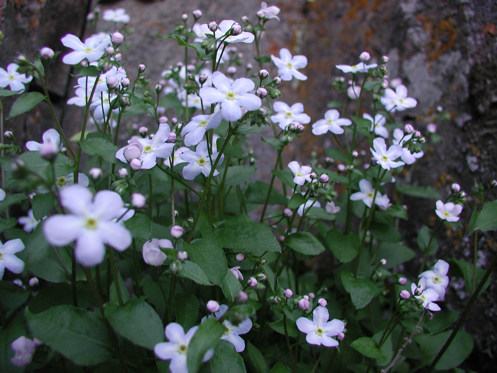 Hackelia ophiobia flowering in SW Idaho